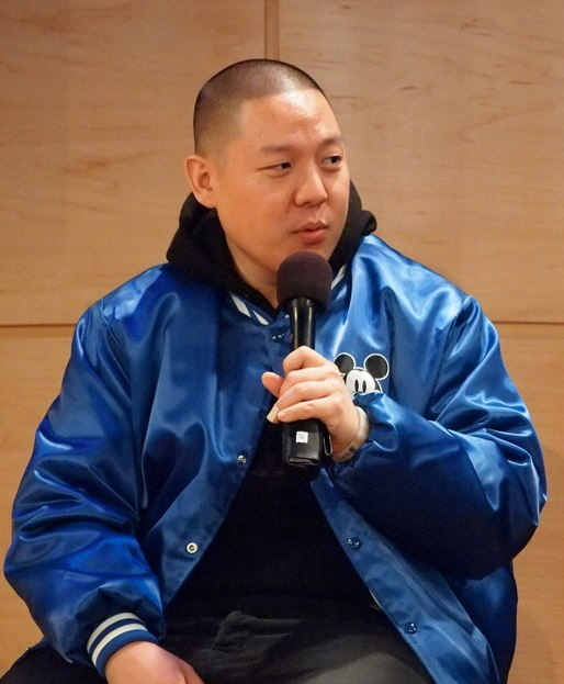 Eddie Huang in New York, NY, on January 31, 2013